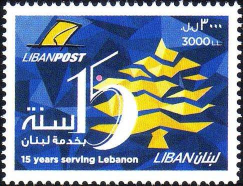 15th Anniversary LibanPost.jpg